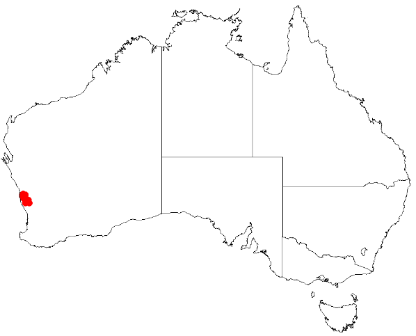 Desmocladus elongatus Occurrence data downloaded from Australasian Virtual Herbarium on 24 January 2019 using